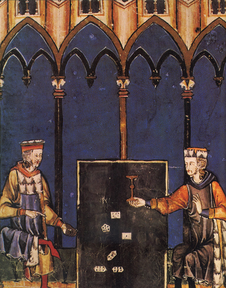 Two men throwing dice, pictured in Libro de los juegos.